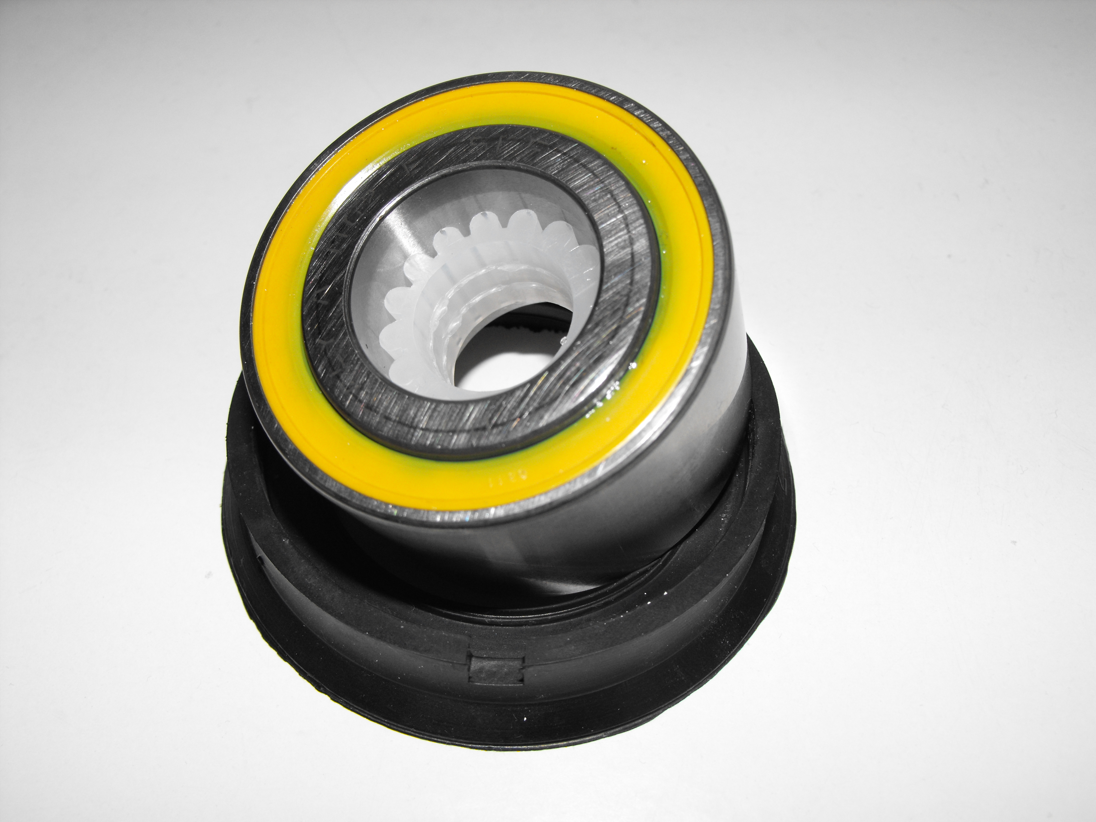 Rolling-element bearing, (ball bearing). Outer diameter: 60 mm, inner diameter: 30 mm.